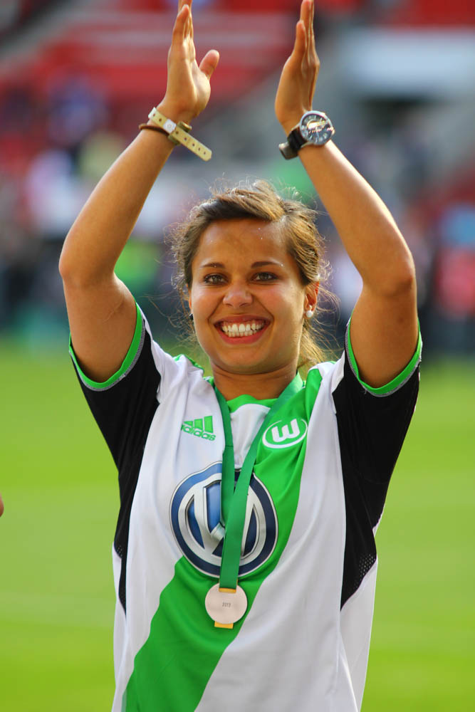 German football player Eve Chandraratne, VfL Wolfsburg - after the German cup final 2013